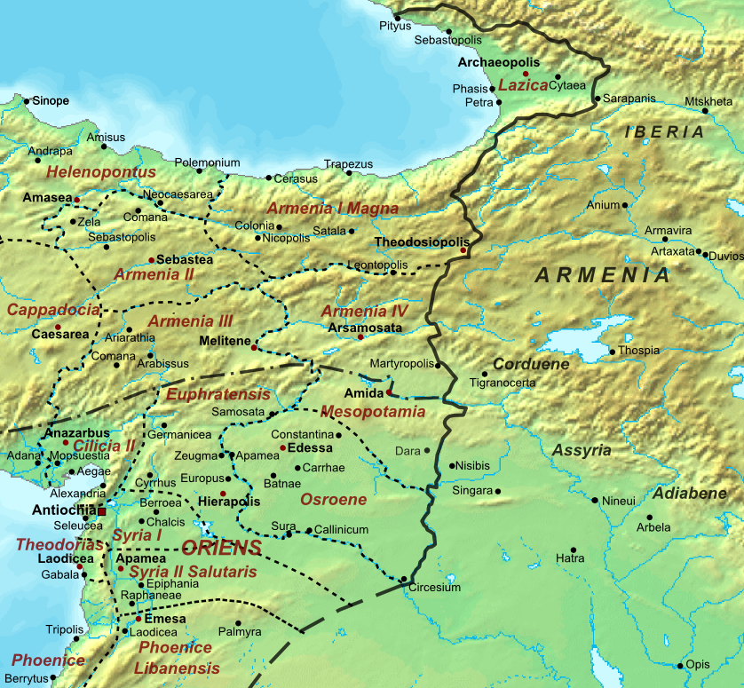 The frontier between the Roman and Sassanid Persian Empires at the death of Emperor Justinian I in 565 AD. It includes the provincial reorganization of 536 and Lazica.